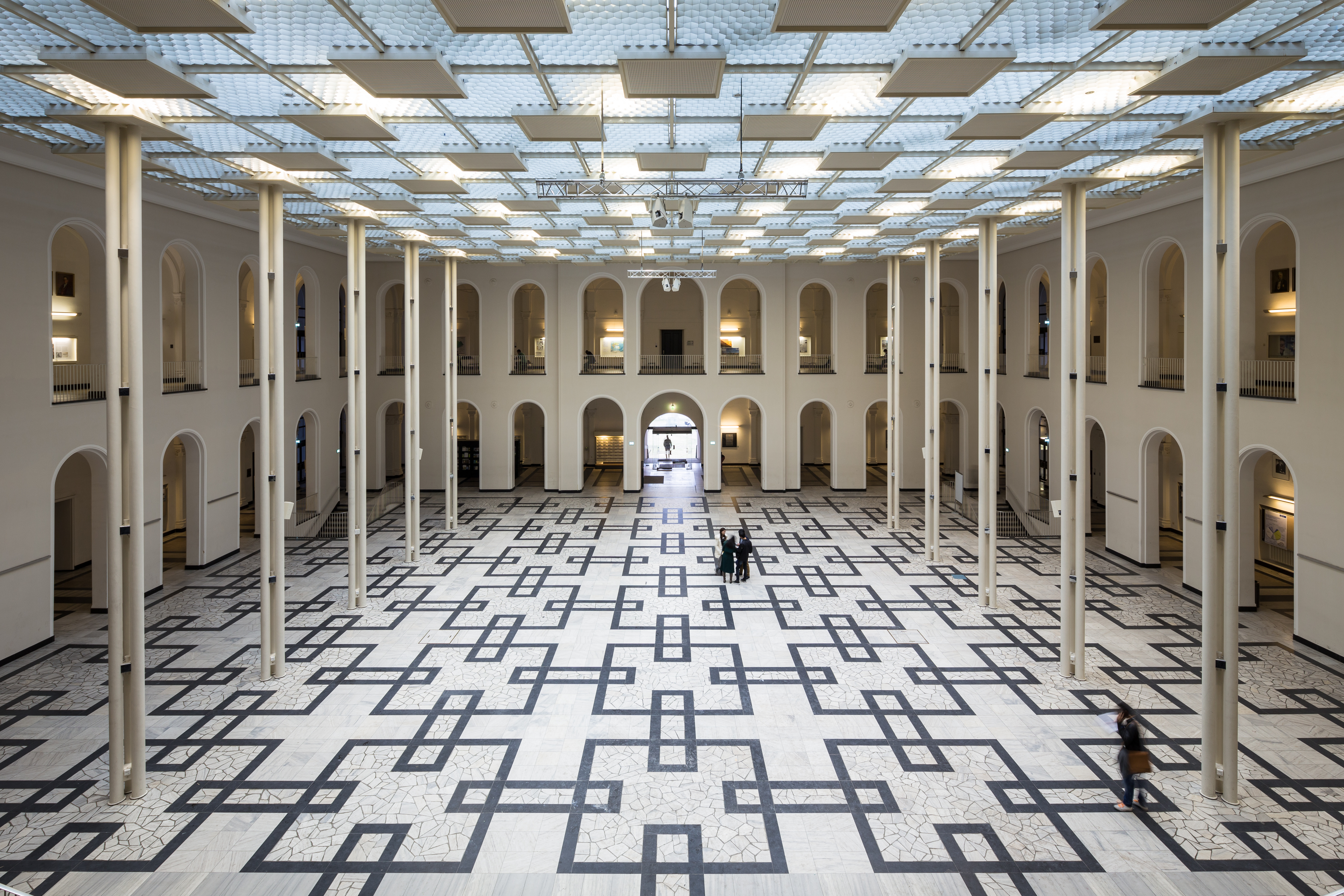 Atrium ("Lichthof") of the former Welfenschloss building, today base of Leibniz Universitaet Hannover located at Am Welfengarten no. 1 in Nordstadt quarter of Hannover, Germany.